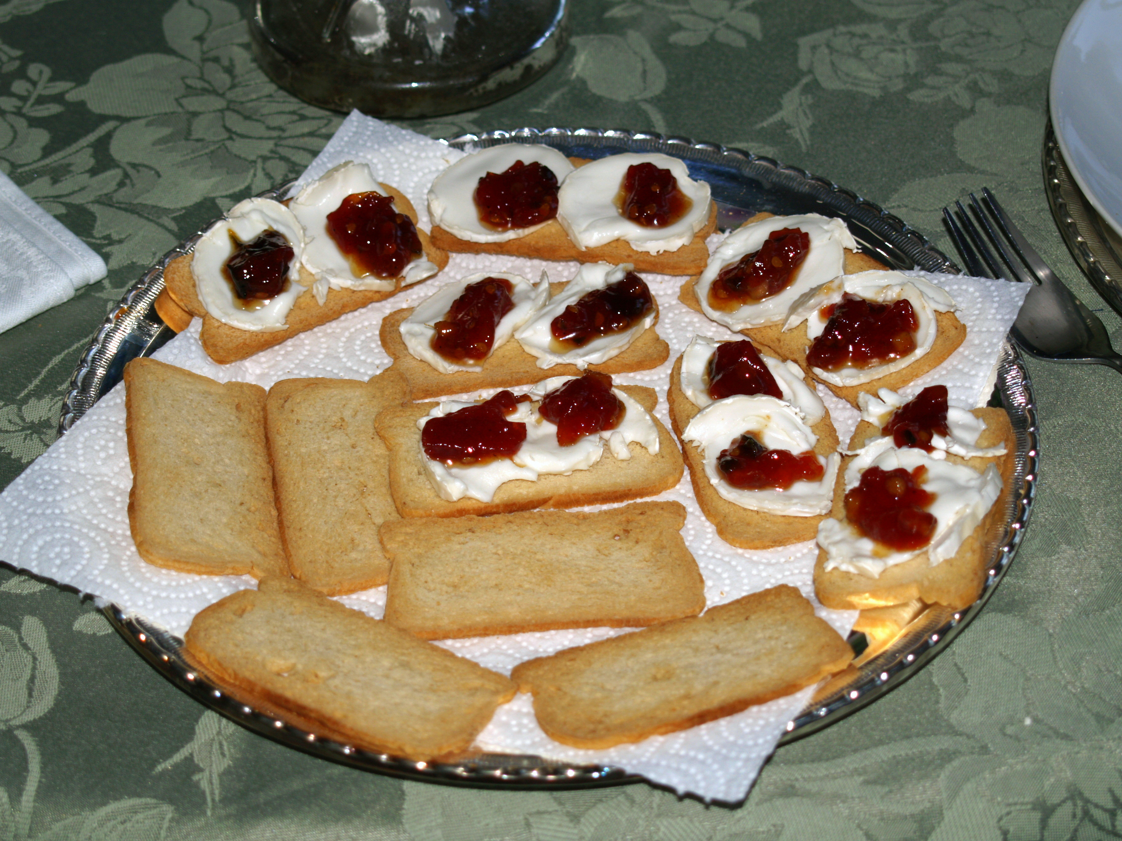 Melba toast topped with goat cheese and tomato jam